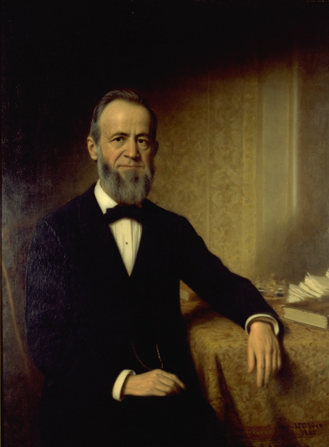 Portrait of Thomas Cooley by Lewis T. Ives. Thomas Cooley, Michigan Supreme Court, Chief Justice: 1868, 1869, 1870, 1876, 1877, 1878, 1884, 1885, served from 1864 through 1885. Michigan Supreme Court Historical Society